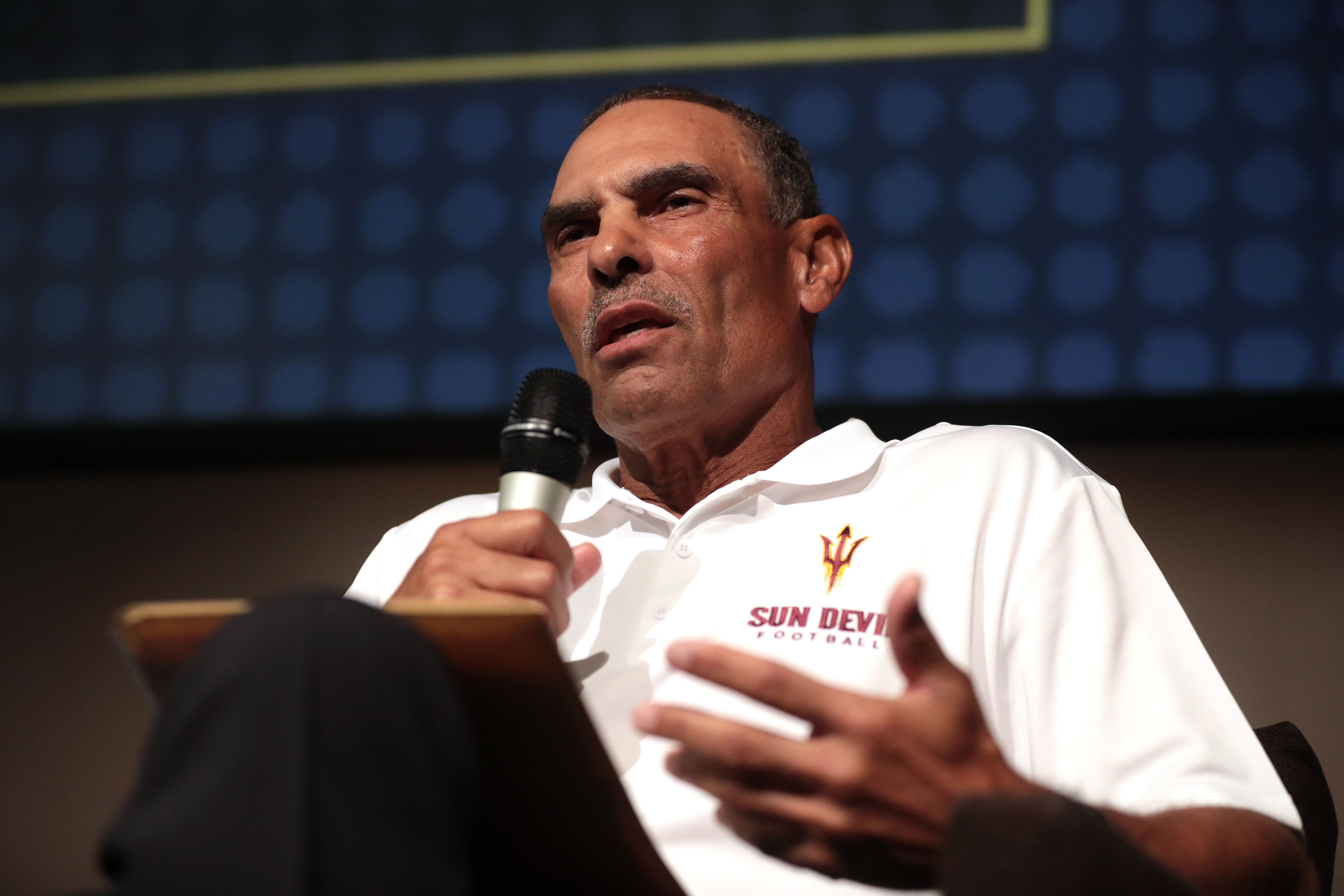 Herm Edwards speaking with attendees at an event titled "Inside the Huddle with Sun Devil Football Head Coach Herm Edwards" at the Walter Cronkite School of Journalism and Mass Communication at Arizona State University in Phoenix, Arizona.